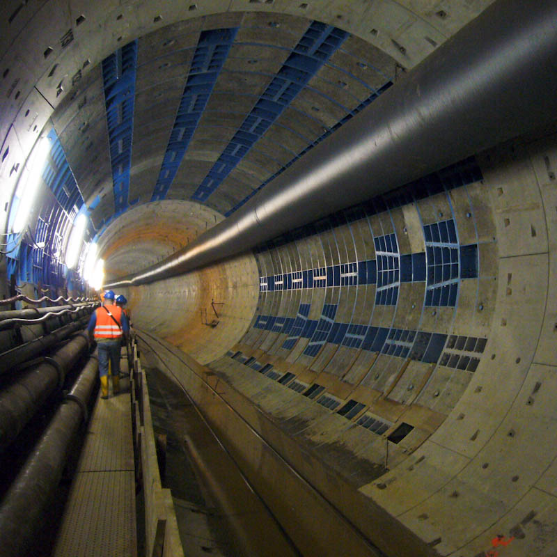 New tube for subway, under construction. Düsseldorf, Germany, 2011.